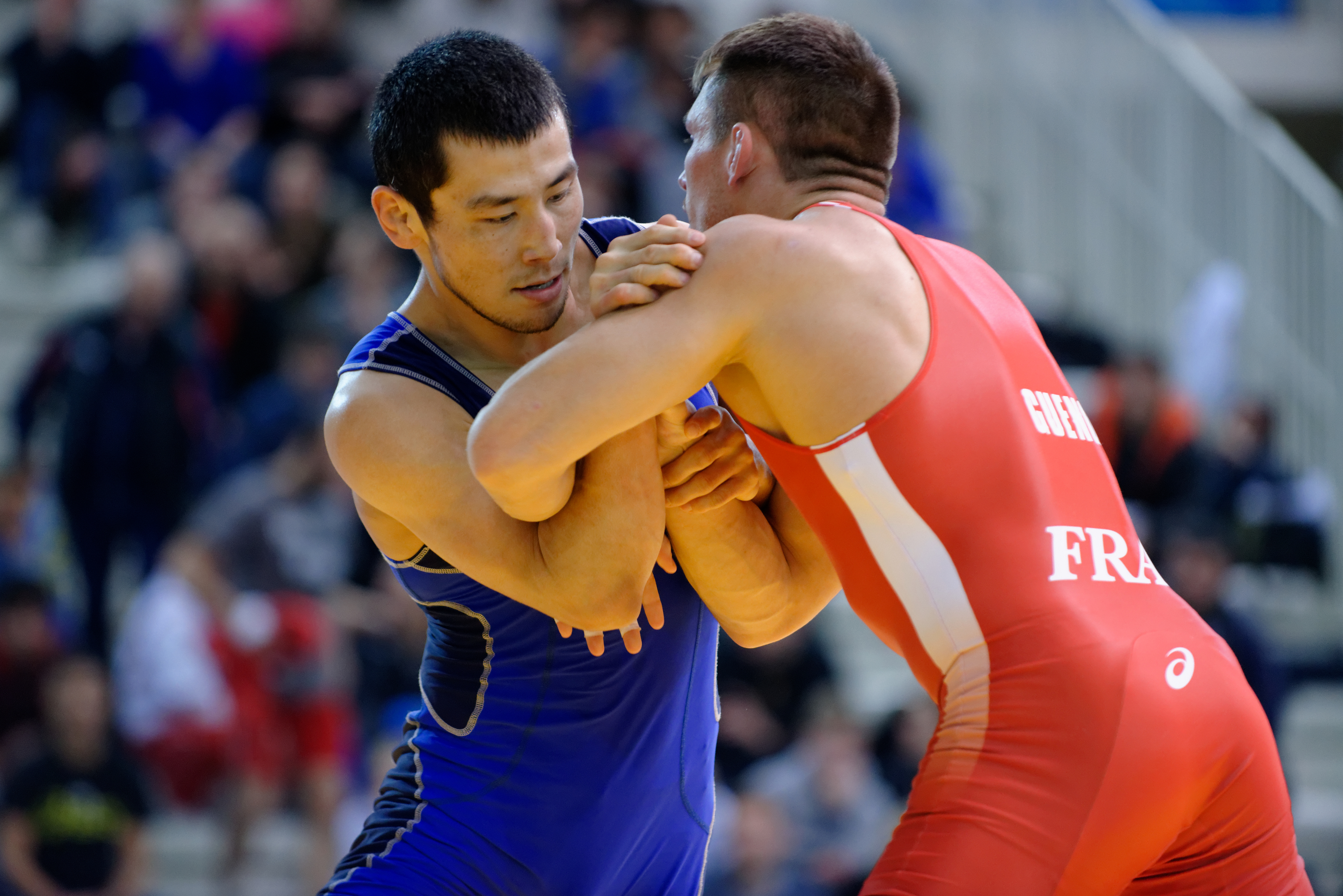 France's Steeve Guénot (red) wrestles Demeu Zhadrayev of Kazakhstan (blue) in the Greco-Roman 71kg Nordic round at the Golden Grand Prix of Paris.